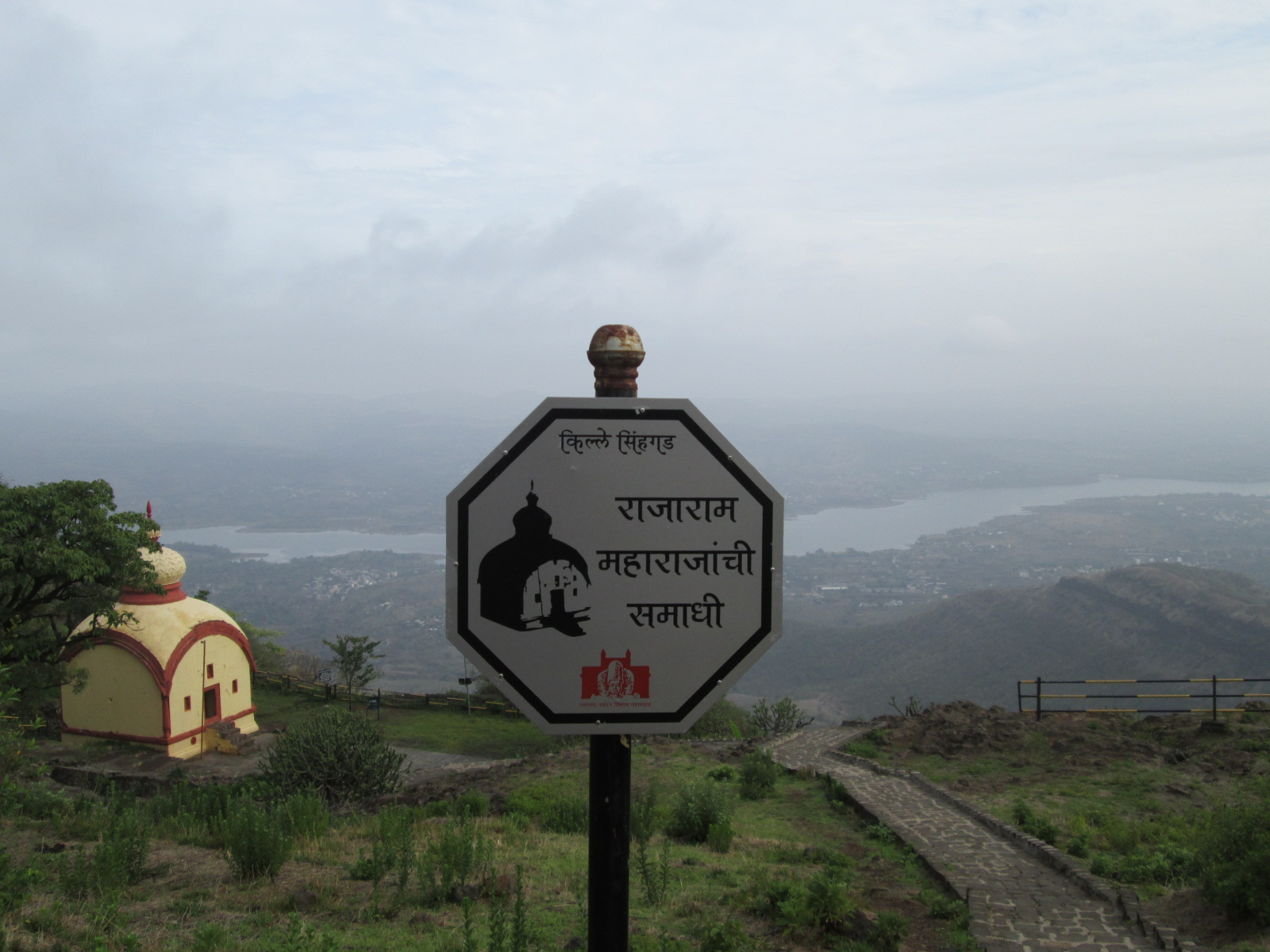 A memorial marking the place of death of Kshatriya Kulawantas Sinhasanadheeshwar Shreemant Chhatrapati Rajaram Raje Bhosle, who was the third Sovereign Emperor of Mahratta India. The memorial is atop Sinhgad Fort, Pune, India